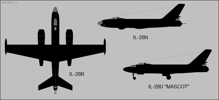 2-view silhouettes of Ilyushin Il-28 bomber variants